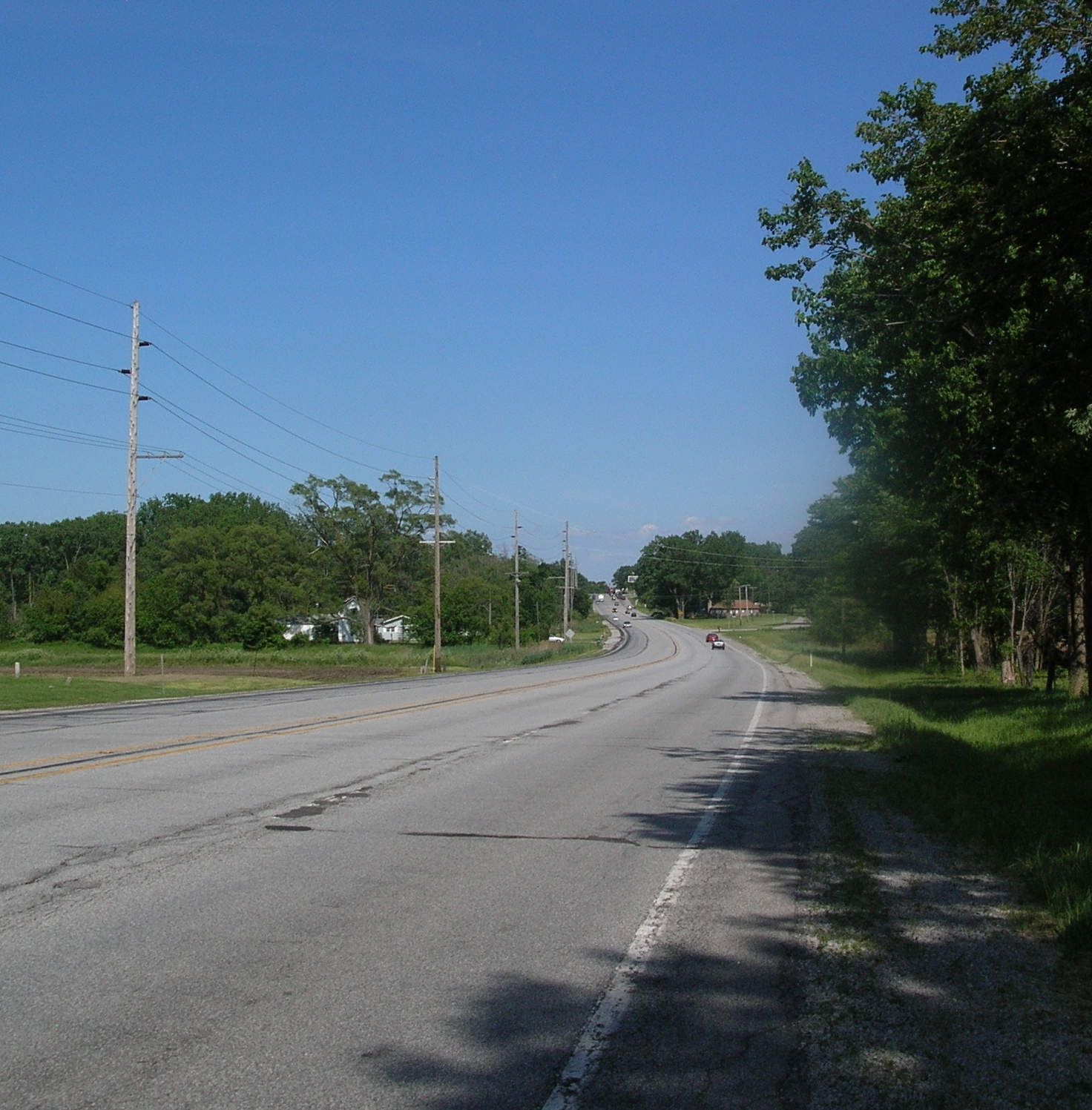 U.S. 20 approaching Springville (Indiana State Route 39 junction) from the east.